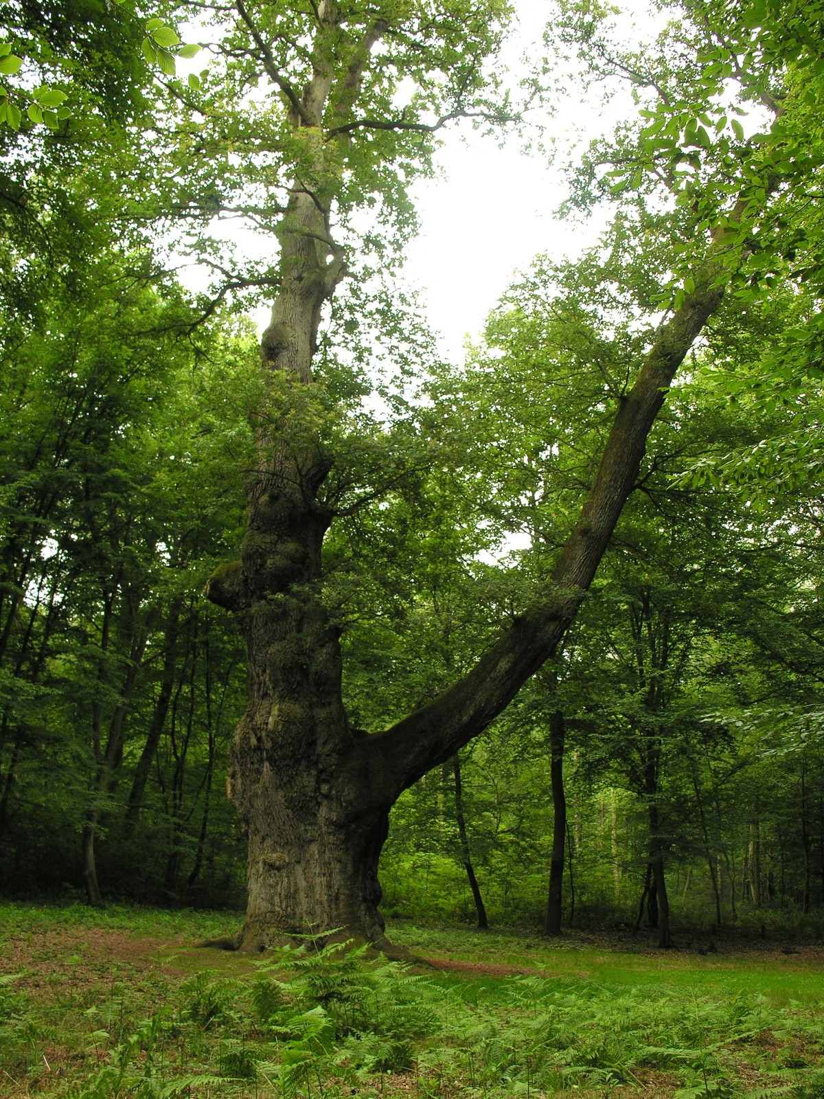 The large oak tree of "Saint Jean aux Bois"